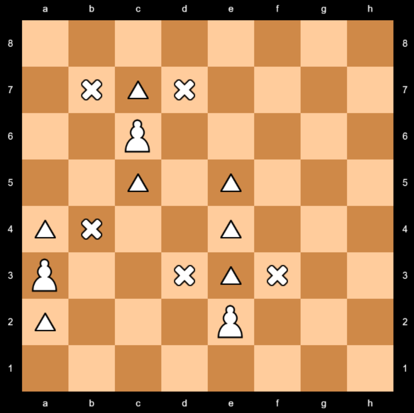 Pawns are Taxis: can move from initial square upto 3 squares forward. Can also make a backward move one square. These are non capturing moves.